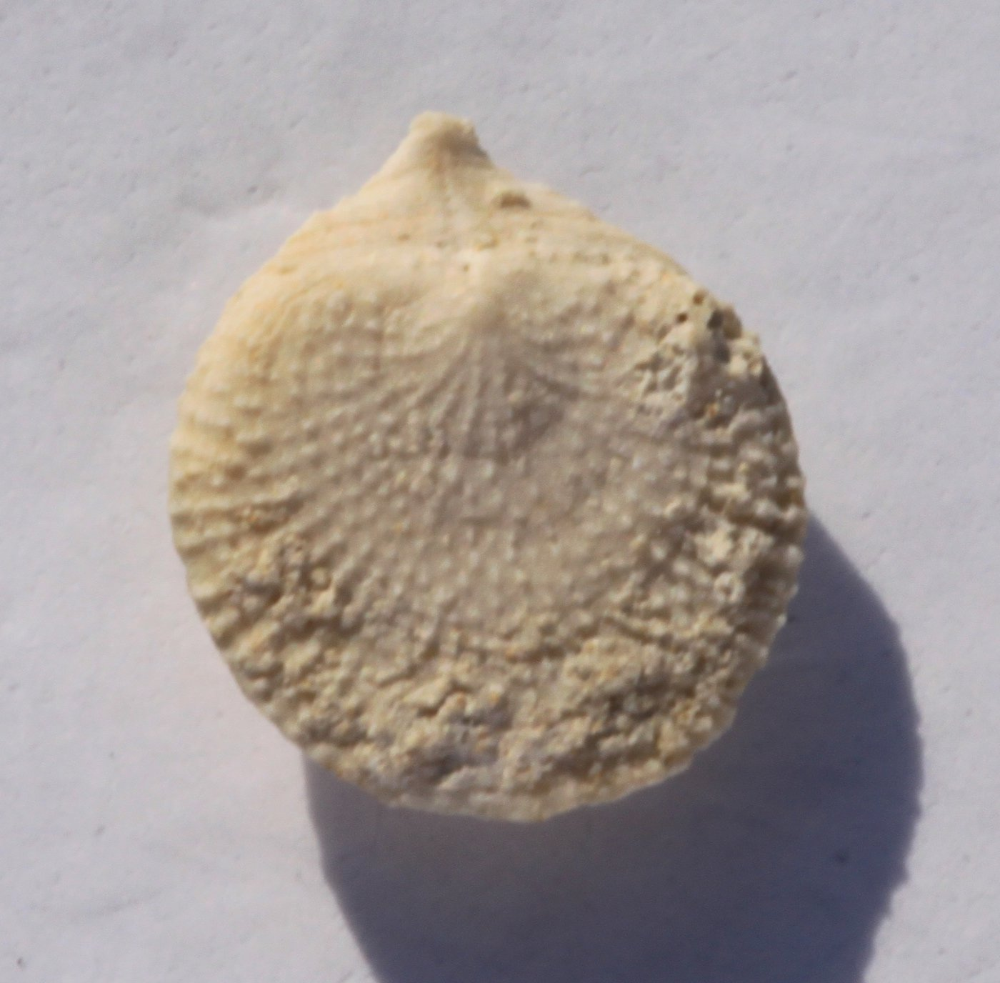 A Thecidea papillata lampshell, Order Thecideida, Family Thecideidae, 7mm along the axis, brachial valve, collected near Maasticht, the Netherlands, from the late Upper Cretaceous (Maastrichtian)